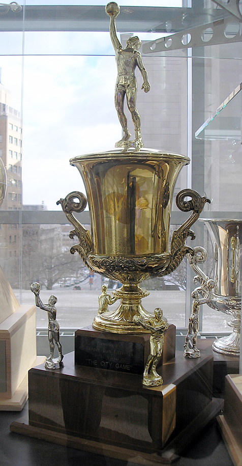 The City Game trophy on display in the University of Pittsburgh's Petersen Events Center